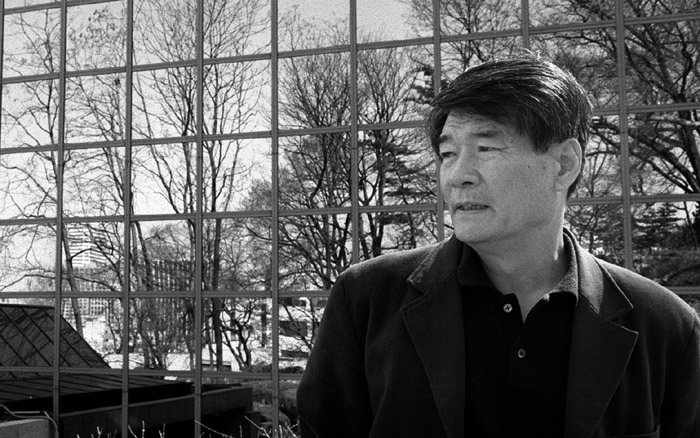 Kim Joo-young